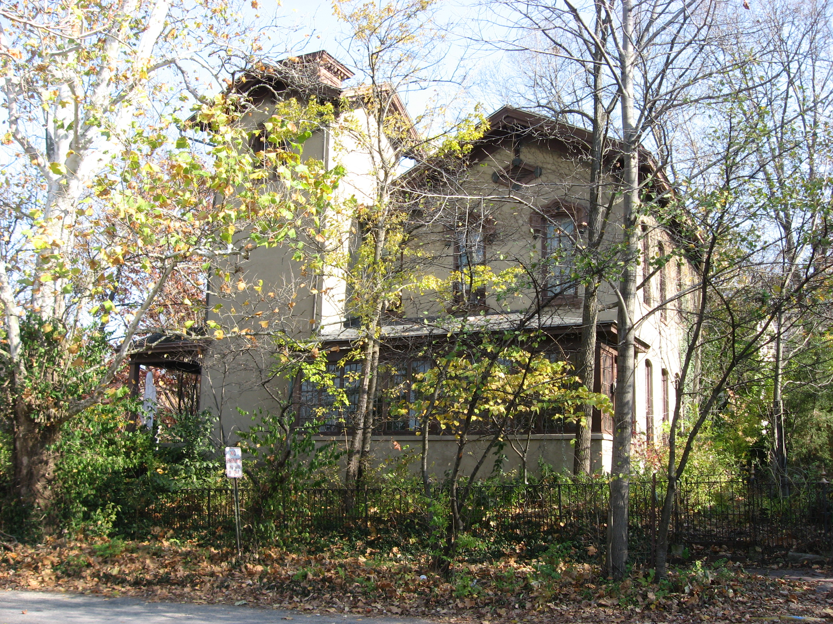 Western side of the Falley Home, located at 601 New York Street in Lafayette, Indiana, United States. Built in 1863, it is listed on the National Register of Historic Places.